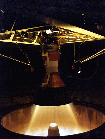 NASA White Sands Test Facility - original image at [1]